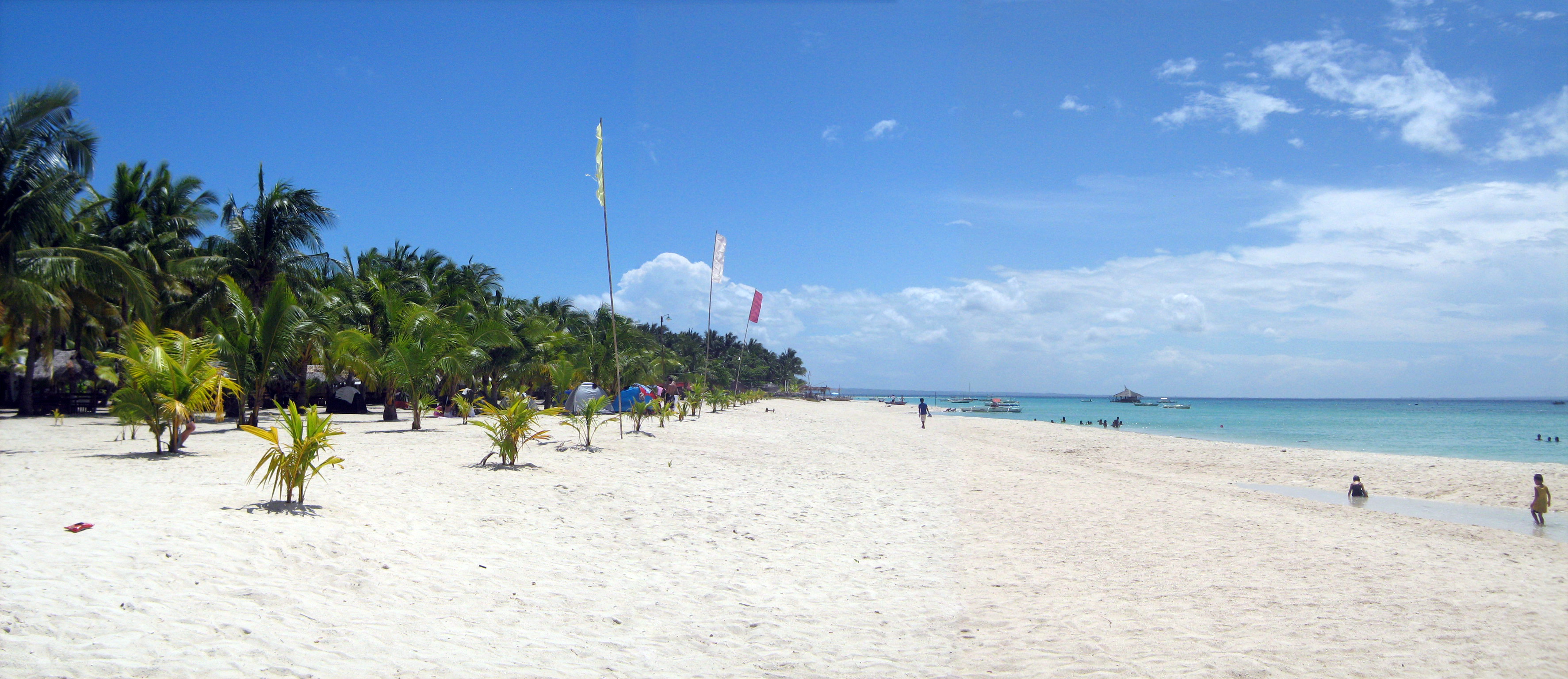 A view of Sugar Beach resort in Santa Fe, Cebu on Bantayan Island, Cebu, Philippines